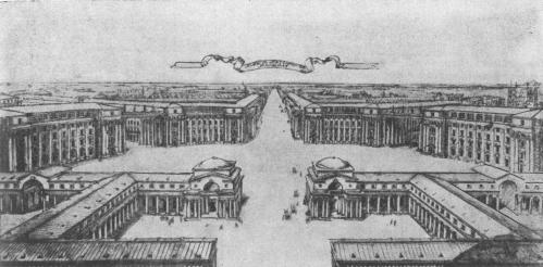 Golodai Island, plan by Ivan Fomin